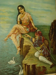 Arjun is one of the heroes of the hindu epic mahabaratha. Arjun with some brahmins left Indraprasta for pilgrimage. First he went to the banks of ganges ,had a holy dip and was hearing the stories of his ancestors and spending time. a Naga princess called Uluchi, was roaming on the banks of Ganges, She saw Arjun. and became infatuated of him. She caused him to be abducted after he had been intoxicated with potent concoctions; she had him conveyed to her realm in the netherworld. Here, uluchi induced an unwilling Arjun to take her for wife. Here the artist created a body of work that defined rich colouring and often sensual subject matter he made his own way without an established master. Sri N.Gopala rao was a self taught is probably hyperbolic ,perhaps originating with the painter himself and passed on its studio lure.